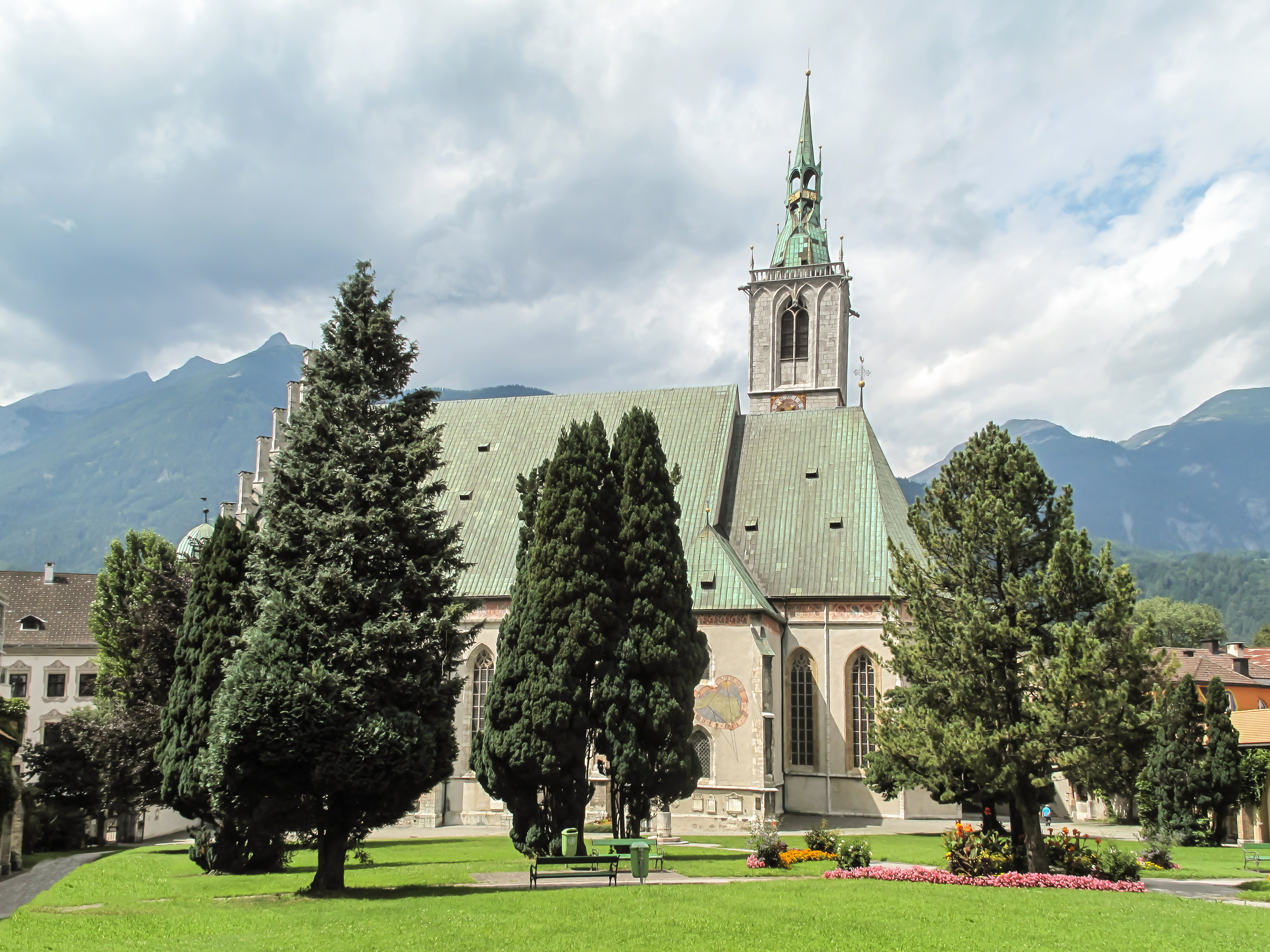 Schwaz, church: Mariä Himmelfahrtkirche